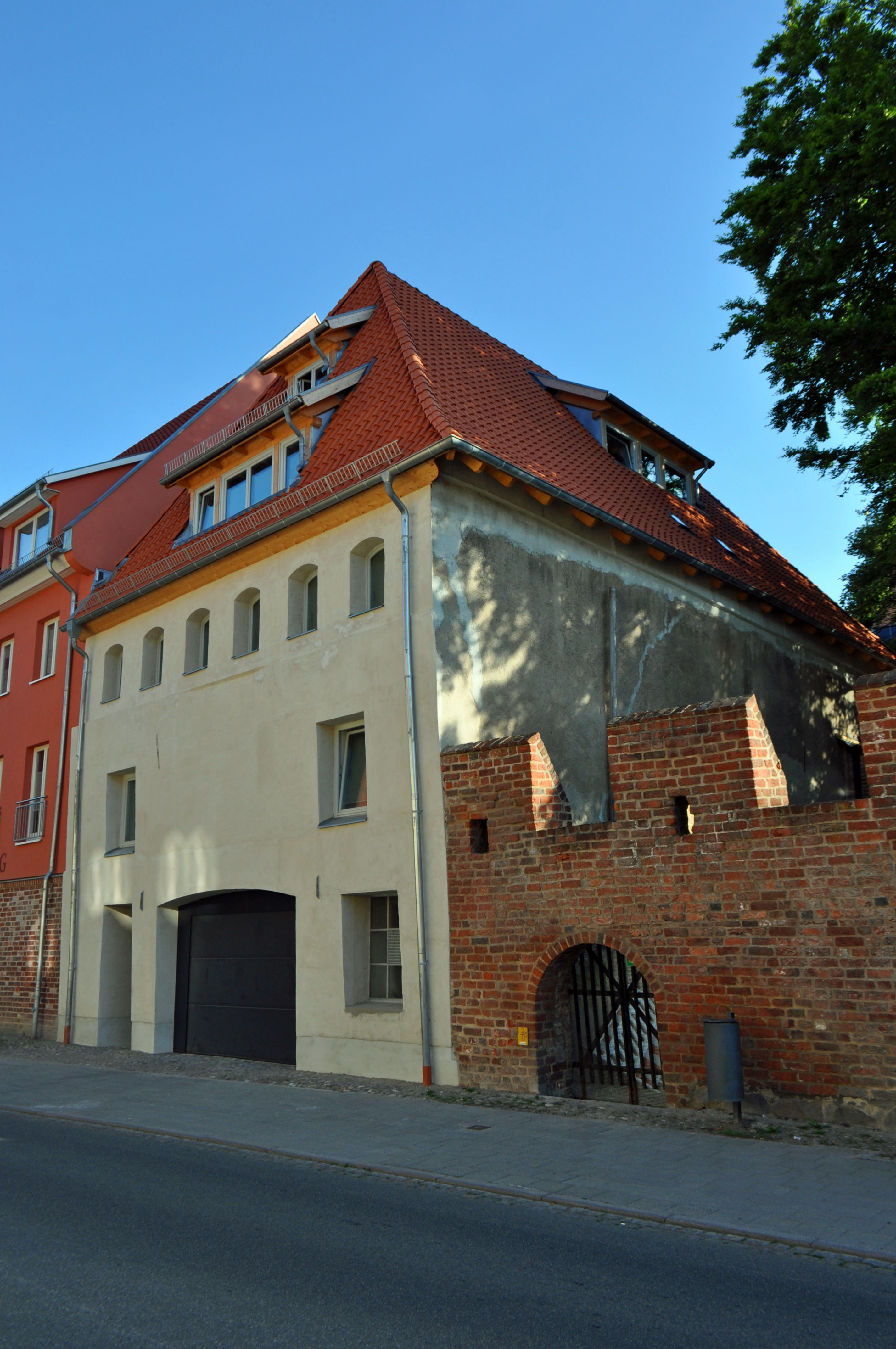 Stralsund, Fährwall 2 This is a photograph of an architectural monument.